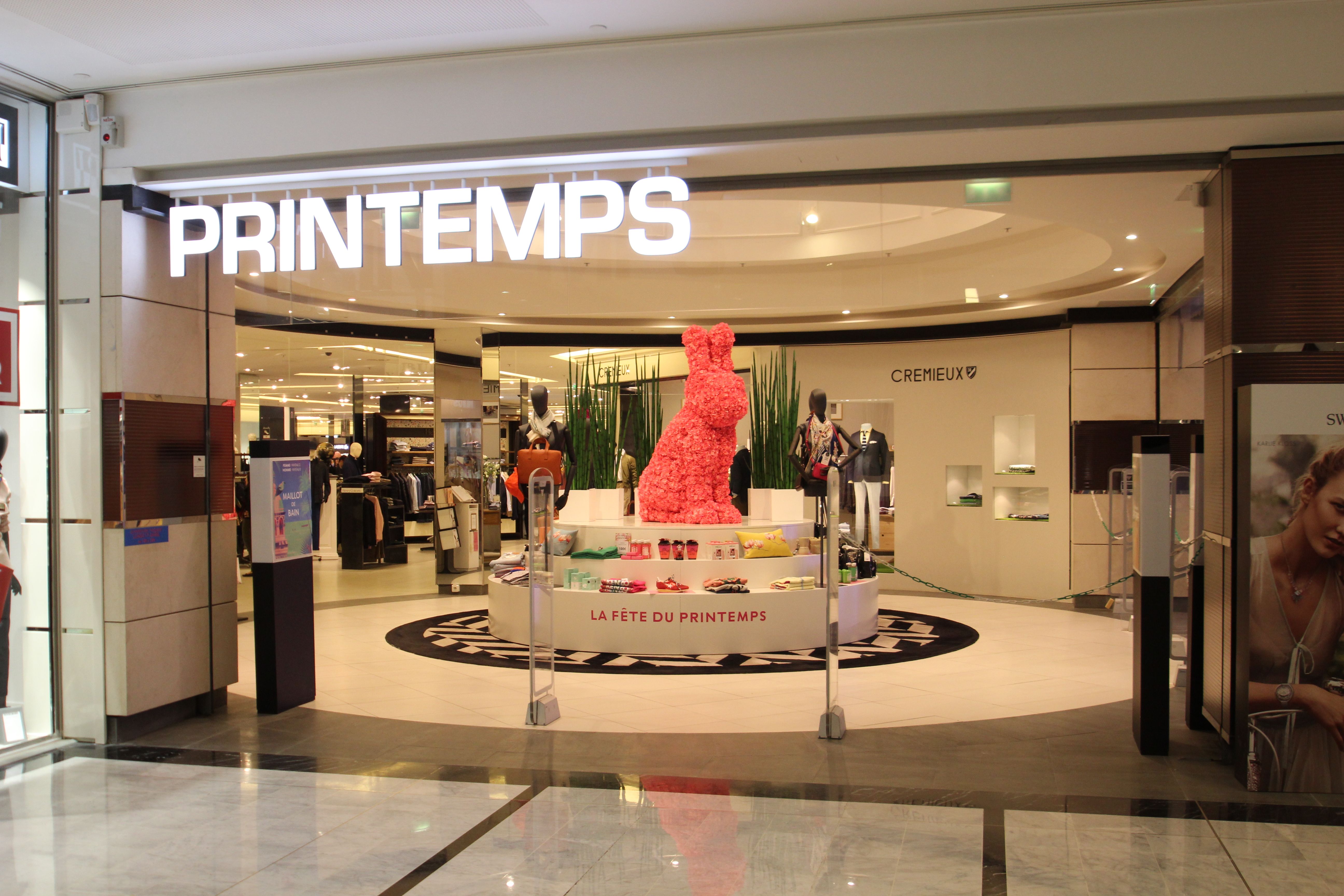 Views from inside Parly 2, a shopping mall in Le Chesnay, France. Object location48° 49′ 16.9″ N, 2° 06′ 53.06″ E